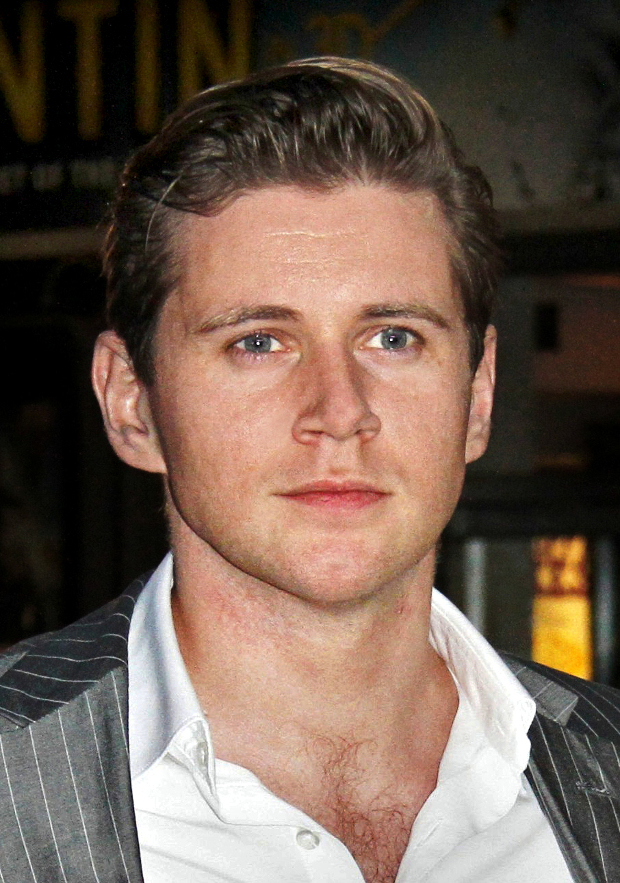 Irish actor Allen Leech at the UK film premiere of "The Adventures of Tintin: The Secret of the Unicorn", Odeon West End Cinema, London, UK on 23 October 2011